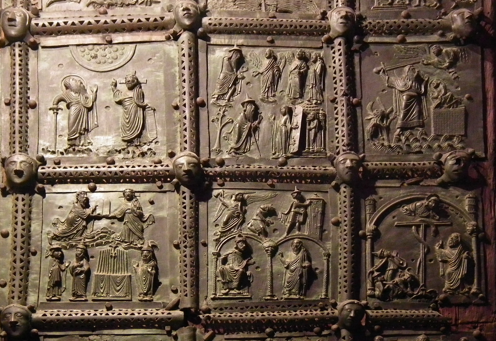 Details on the right panel of the Bronze door. Basilica of San Zeno, Verona Native nameBasilica di San ZenoLocationVerona, Veneto, ItalyCoordinates45° 26′ 33″ N, 10° 58′ 45″ E Established12th/13th centuryWebsite